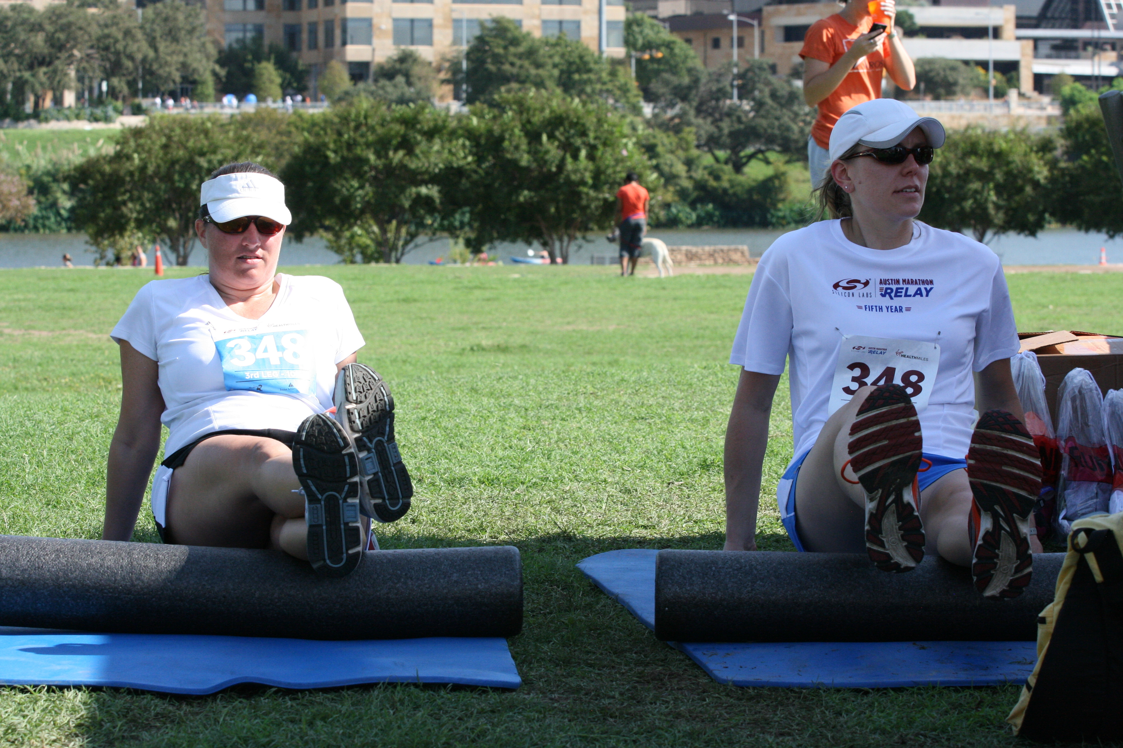 Two women use foam rollers to massage their leg muscles after a running event.